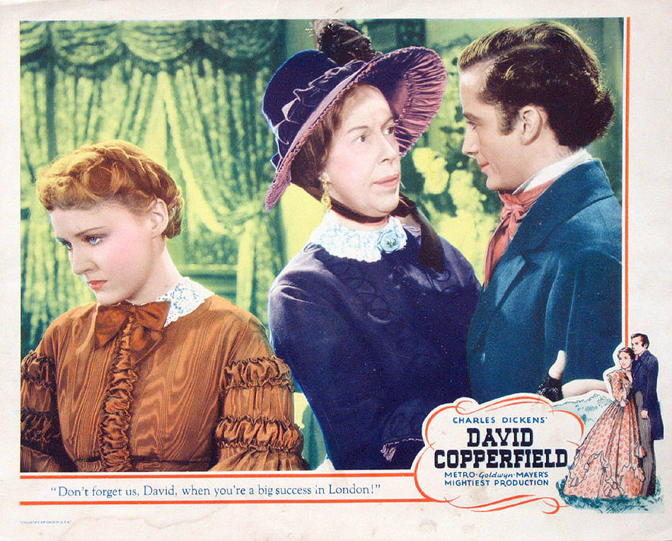 Lobby card for the American film David Copperfield (1935).